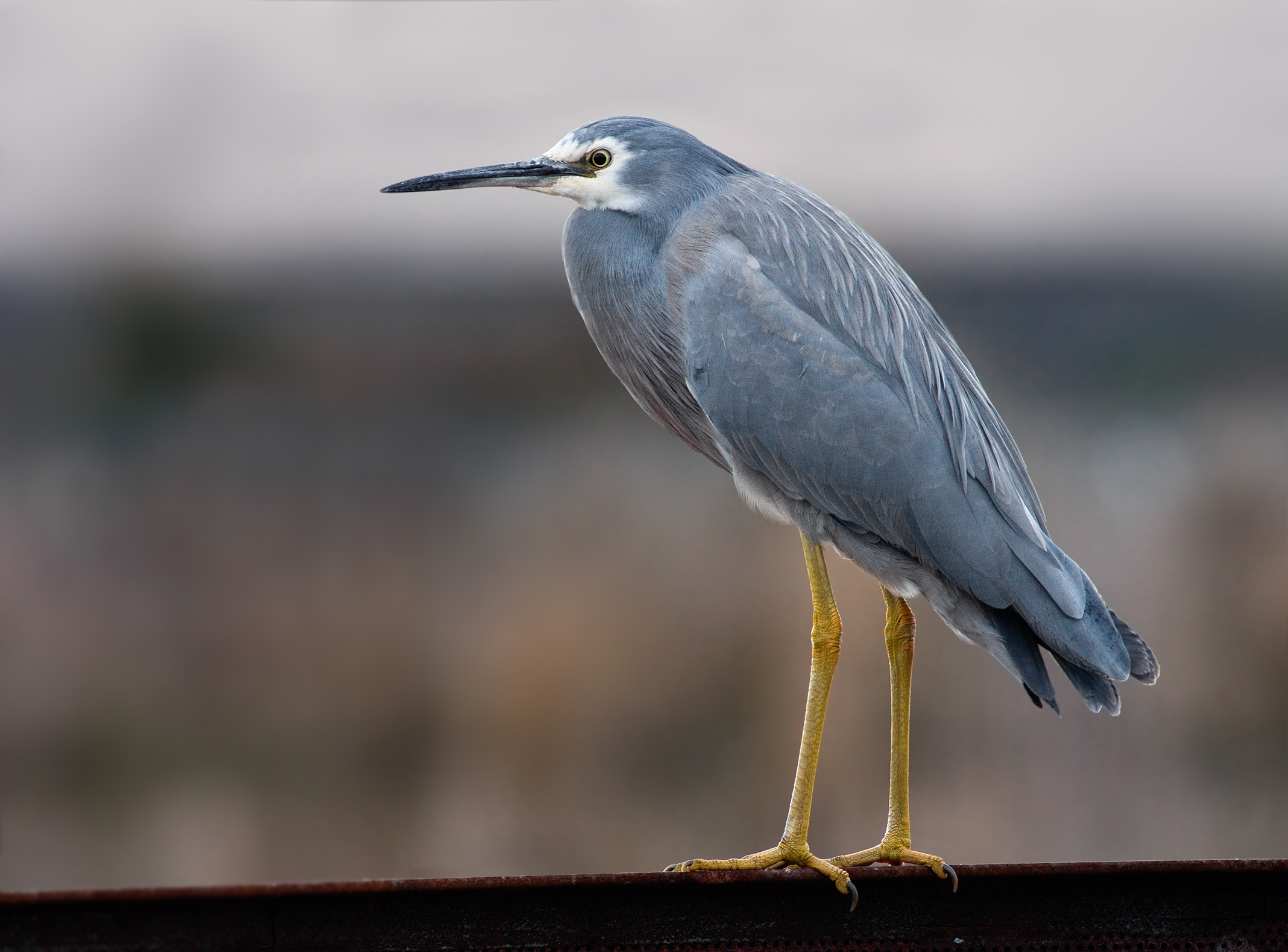 White-faced Heron (Egretta novaehollandiae) on top of the bird hide at Gould's Lagoon, Tasmania, Australia Camera data Camera Canon EOS 400D Lens Canon EF 400mm f5.6L Flash Fill w/ Fresnel Extender Focal length 400 mm Aperture f/5.6 Exposure time 1/2000 s Sensivity ISO 400